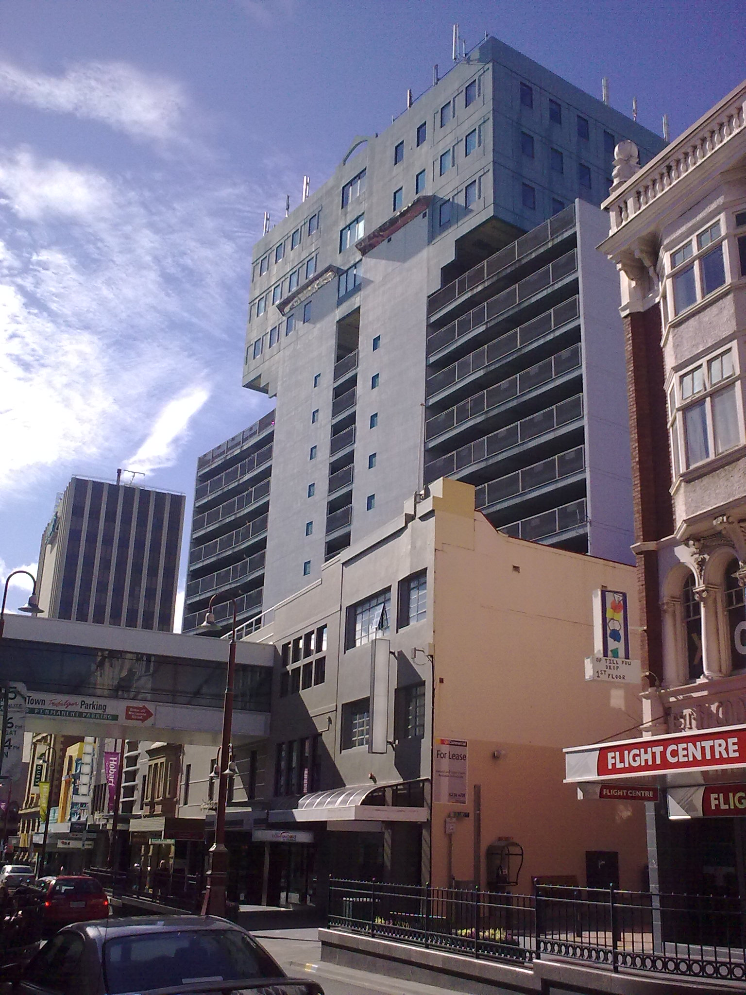 trafalgar Building in Hobart. Taken from Collins Street